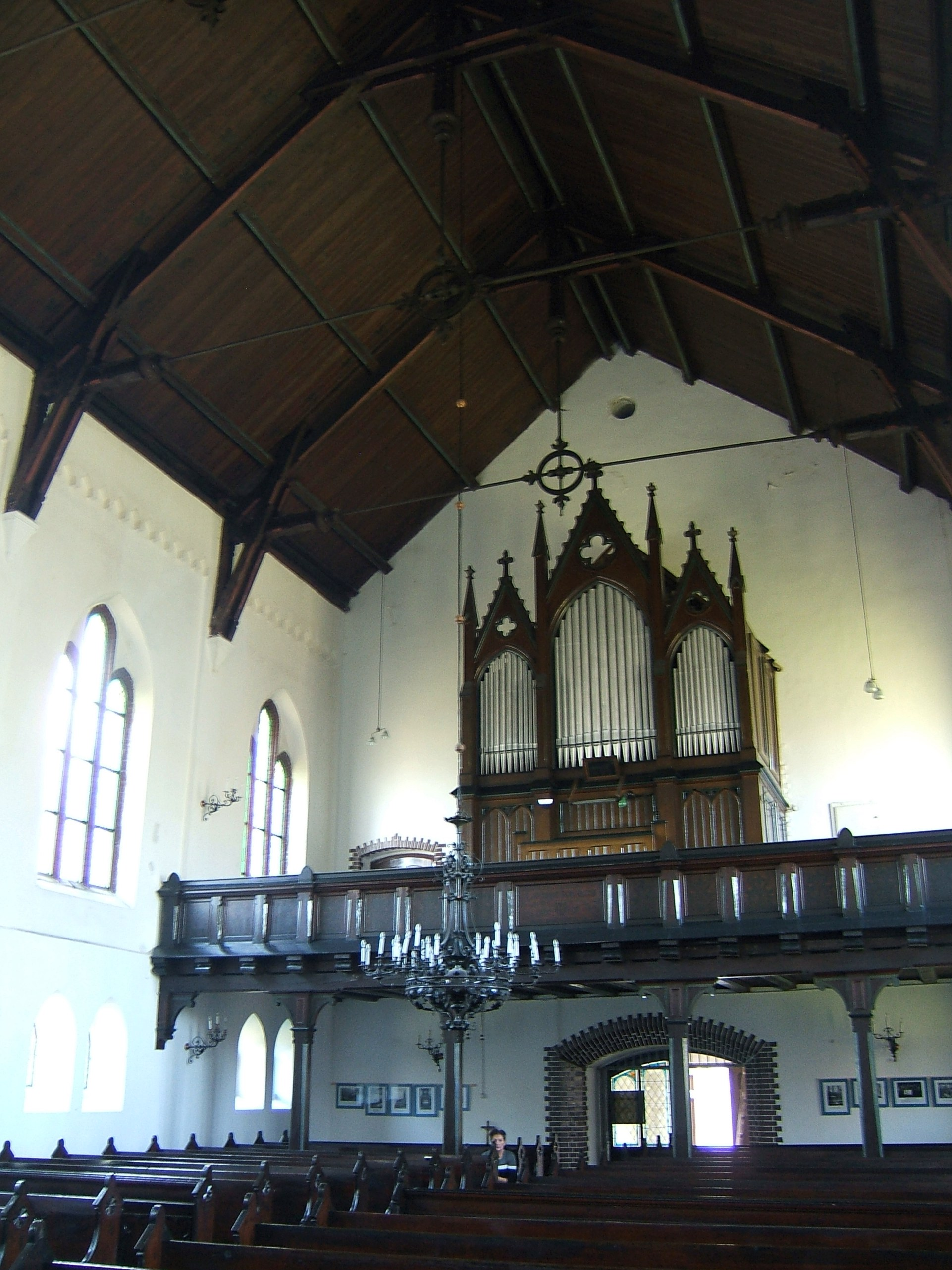 Pipe organ of Our Savior Lutheran Church in Szopienice.